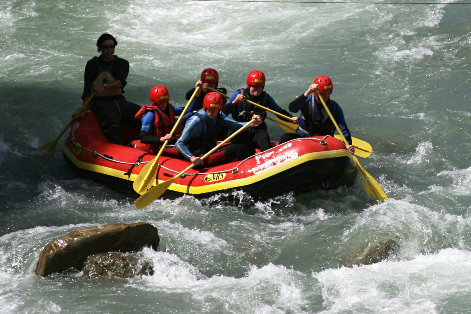 Rafting in the Val di Sole near Mezzana, Trentino, Italy